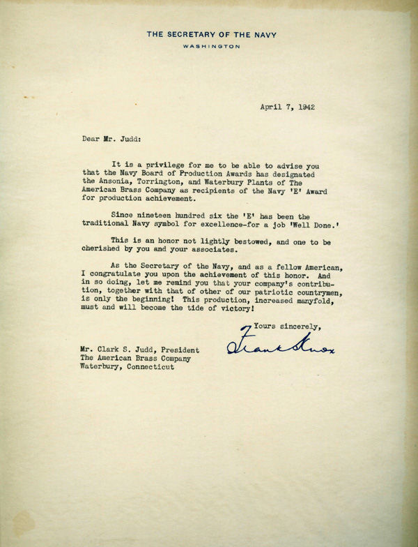 Letter awarding the Army-Navy ‘E’ Award for excellence in production to Mr. Clark S. Judd, President, American Brass Company, Waterbury, Connecticut, dated April 7, 1942.